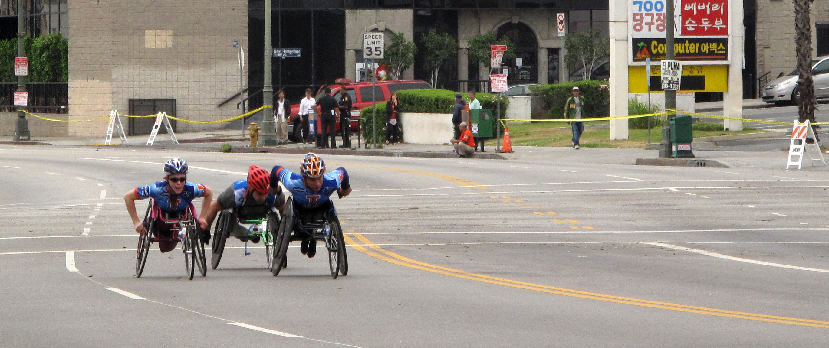 Wheelchair racers in the 2009 Los Angeles Marathon. They are on Olympic Boulevard, just before the Mile 24 marker, on a slight upward slope.